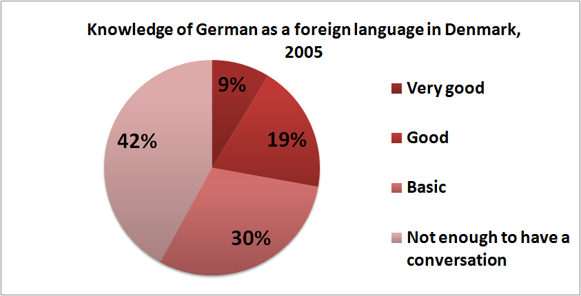 Knowledge of the German language in Denmark, 2005. According to the Eurobarometer: 58% of the respondents indicated that they know German well enough to have a conversation. Of these 15% (per cent, not percentage points) reported a very good knowledge of the language whereas 33% had a good knowledge and 52% basic German skills.